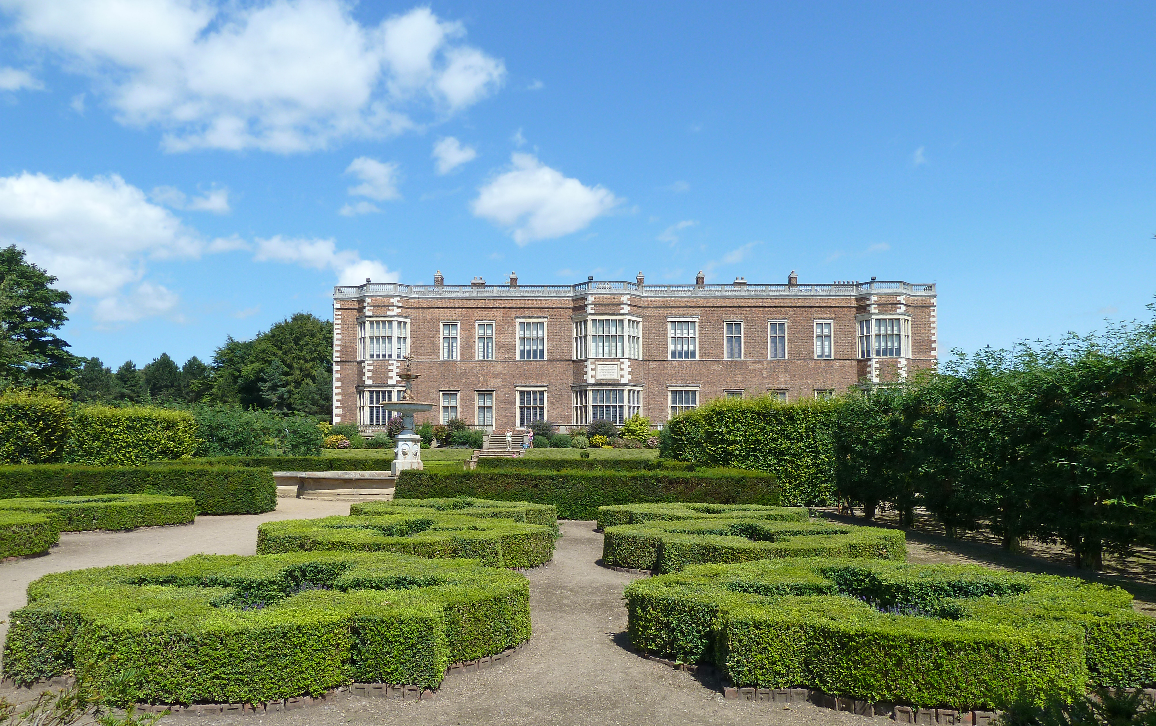 Temple Newsam House, Leeds